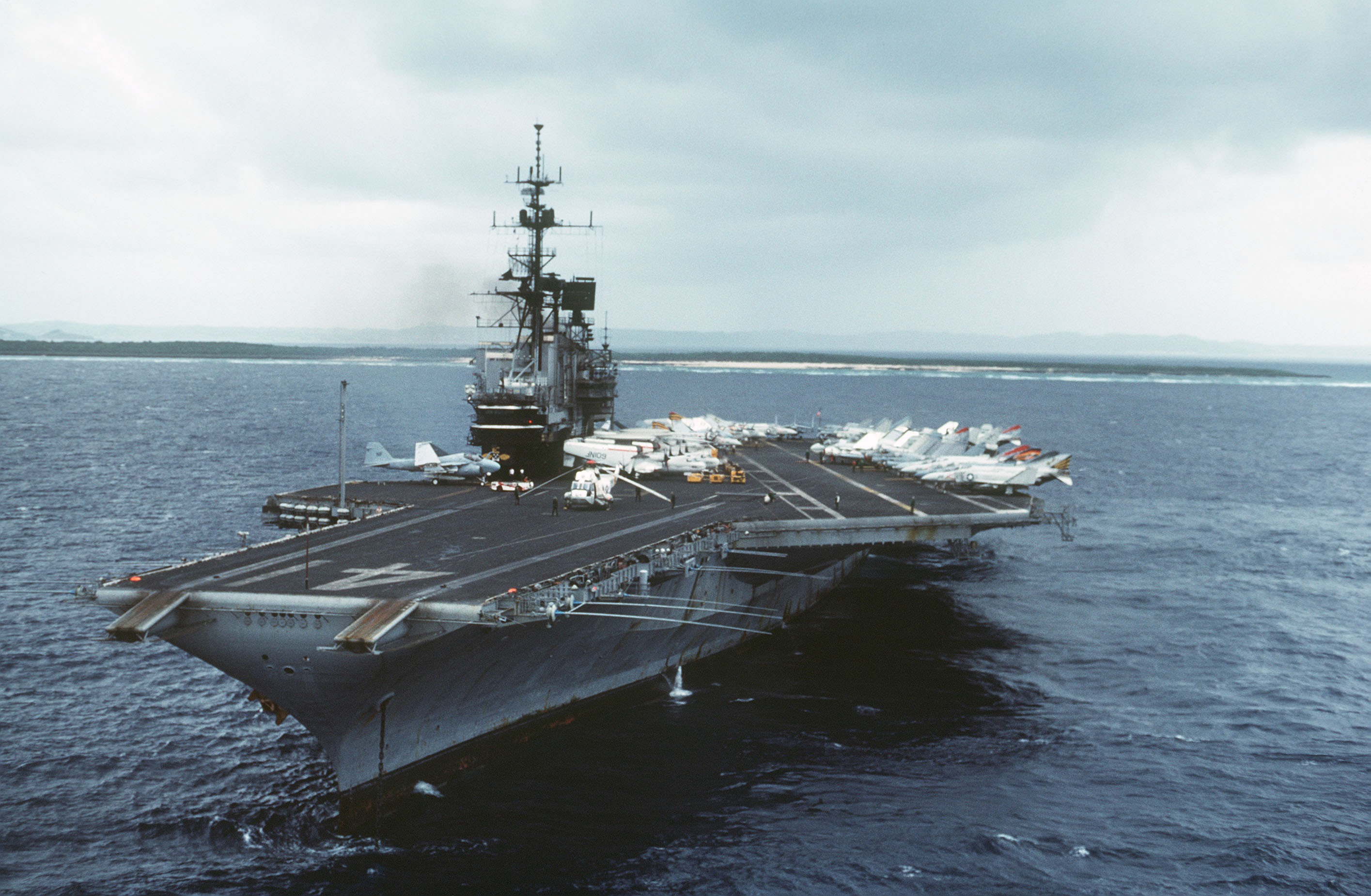 The U.S. Navy aircraft carrier USS Midway (CV-41), anchored in its home port, Yokosuka, Japan. Various aircraft of Carrier Air Wing 5 (CVW-5) line the fight deck.